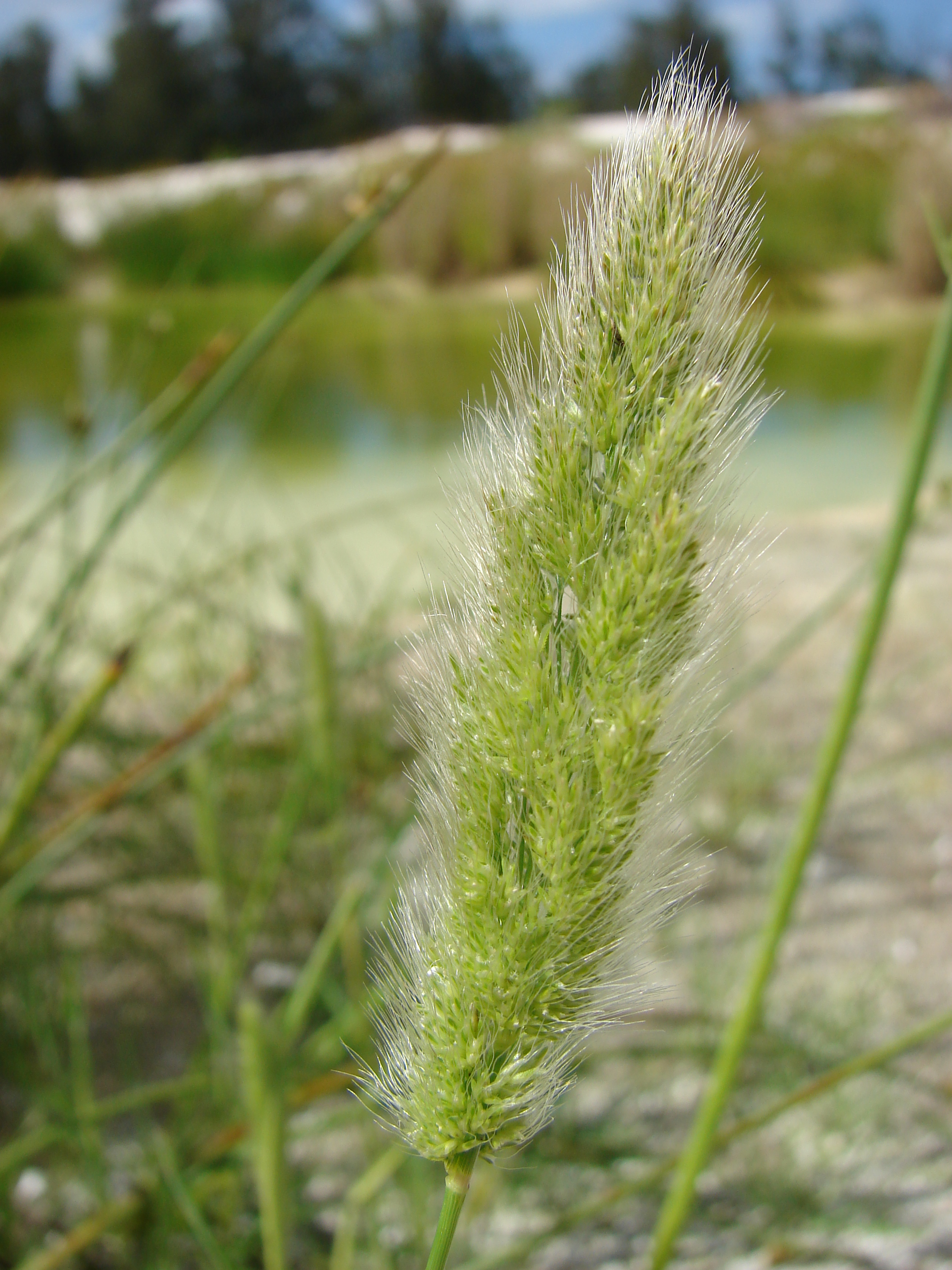 Polypogon sp. (seedheads with Laysan ducks). Location: Midway Atoll, Enlisted housing seep Sand Island